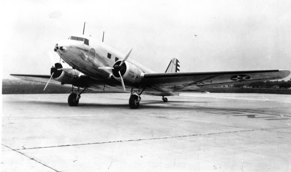 PictionID:40972874 - Title:Douglas C-33 - Catalog:15_002774 - Filename:15_002774.tif - Image from the Charles Daniels Photo Collection album "US Army Aircraft."----PLEASE TAG this image with any information you know about it, so that we can permanently store this data with the original image file in our Digital Asset Management System.----SOURCE INSTITUTION: San Diego Air and Space Museum Archive